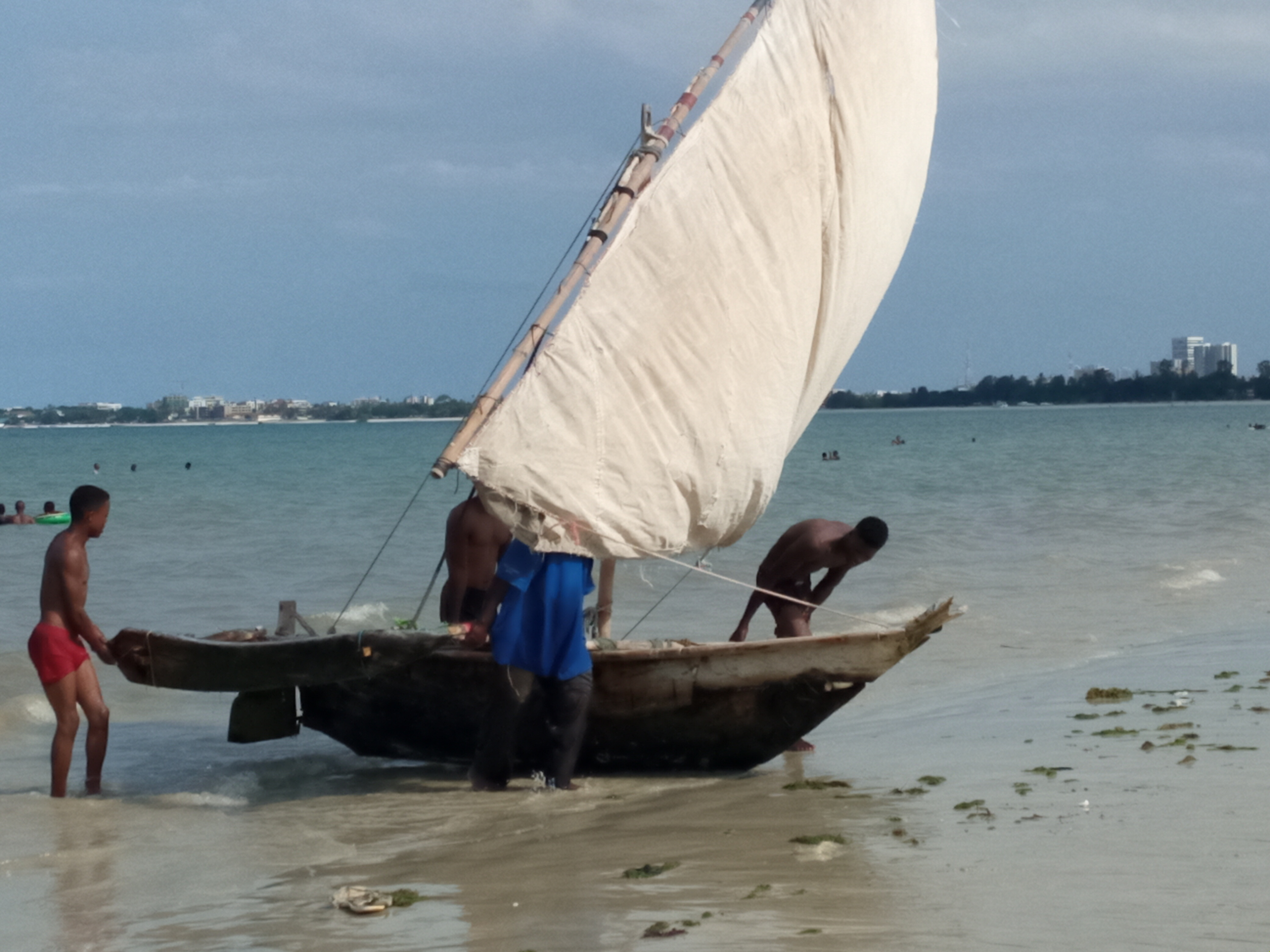 This is an image with the theme "Africa on the Move or Transport" from: Tanzania